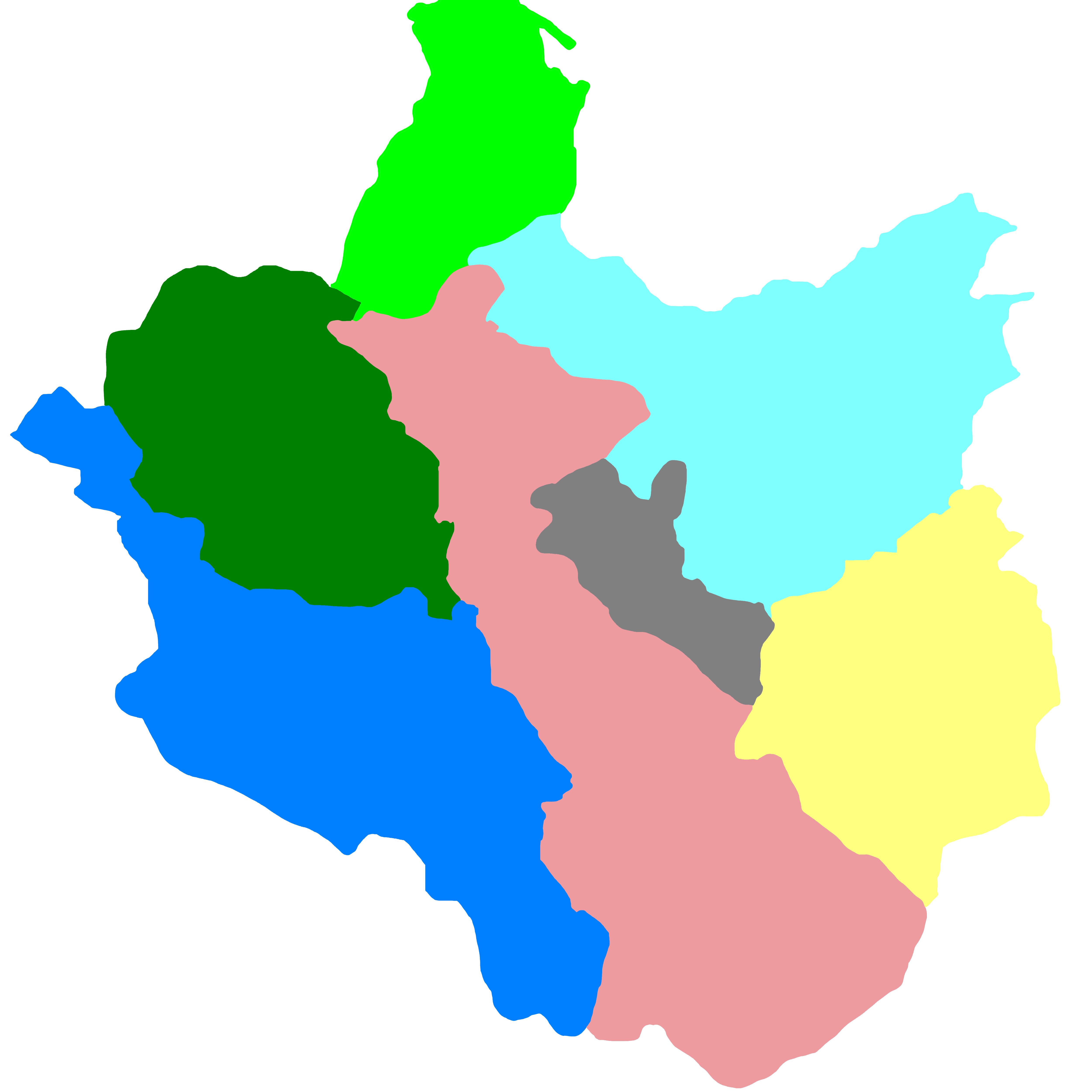 Fragmentation of Poland; various Duchies (dzielnice) are marked in various colors. Poland was split betweens the sons of Bolesław: The Seniorate Province, composed of the Eastern Greater Poland, Lesser Poland, Western Kuyavia, Łęczyca Land and Sieradz Land Silesian Province of Władysław II Masovian Province of Bolesław IV Greater Poland Province of Mieszko III Sandomir Province of Henryk Province of Bolesław's widow, Salomea, composed of Łęczyca Land - to revert to seniorate province upon her death Pomeranian vassals of the ruler of the seniorate province